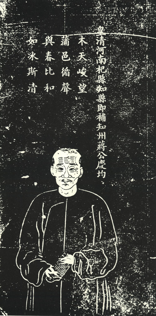 Jiang Qingjun